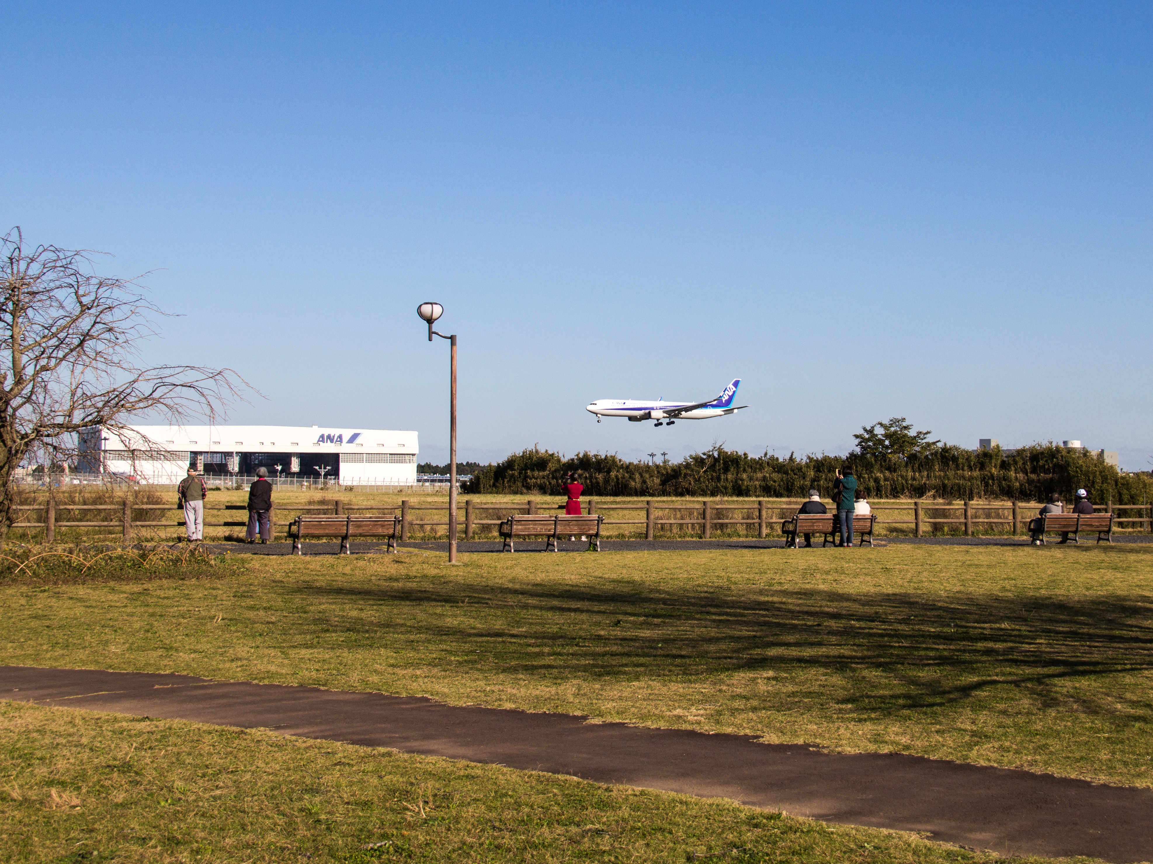 Sanrizuka Sakura no oka in Narita City, Chiba Prefecture, Japan